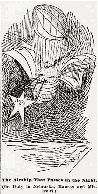 Mystery airship 1897 and Venus